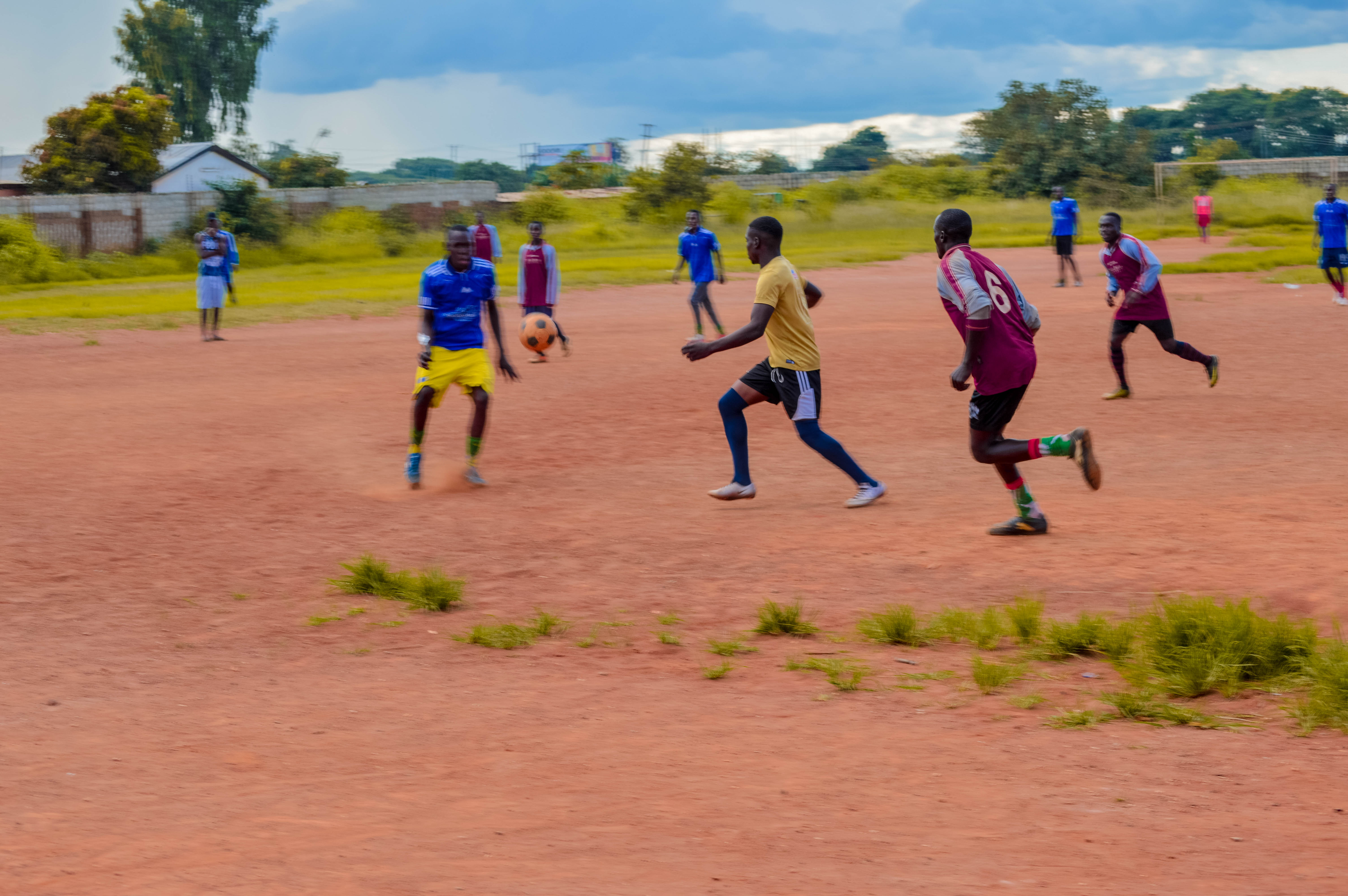 This is an image with the theme "Play" from: Zambia